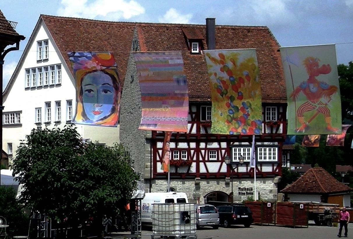 Vellberg